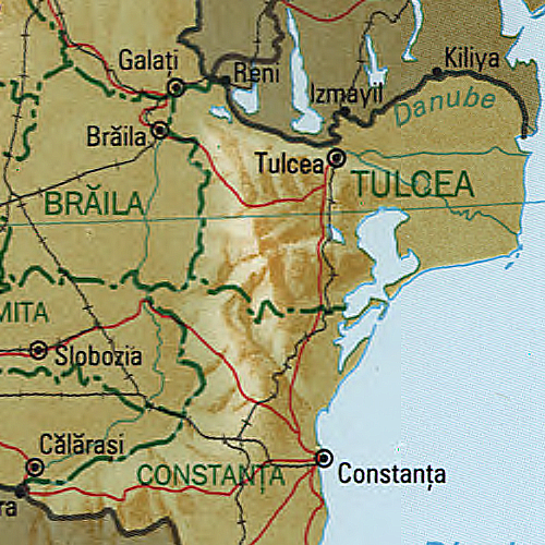 Map of Tulcea County, Romania.